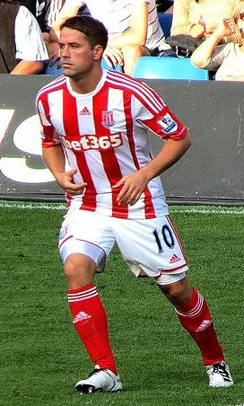 Michael Owen playing for Stoke City at Chelsea, September 2012